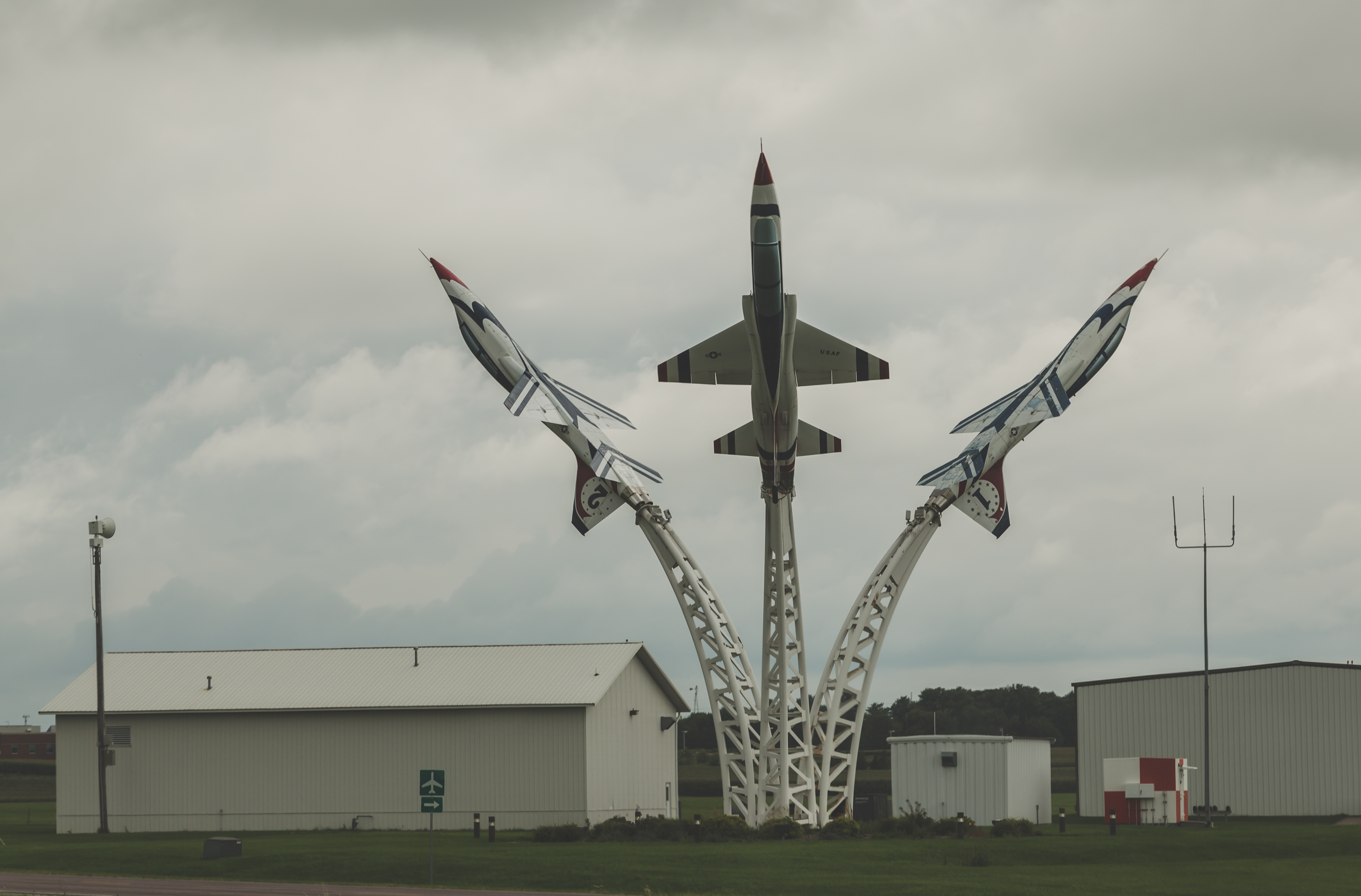 Three T-38 Talon "Thunderbird" jets, a sculpture at Owatonna Degner Regional Airport in Owatonna, Minnesota.